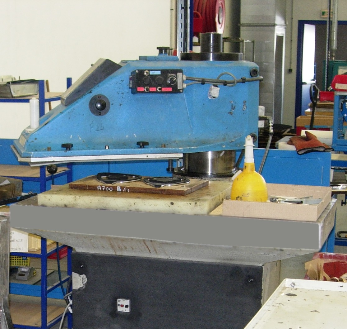 Hydraulic press for cutting.